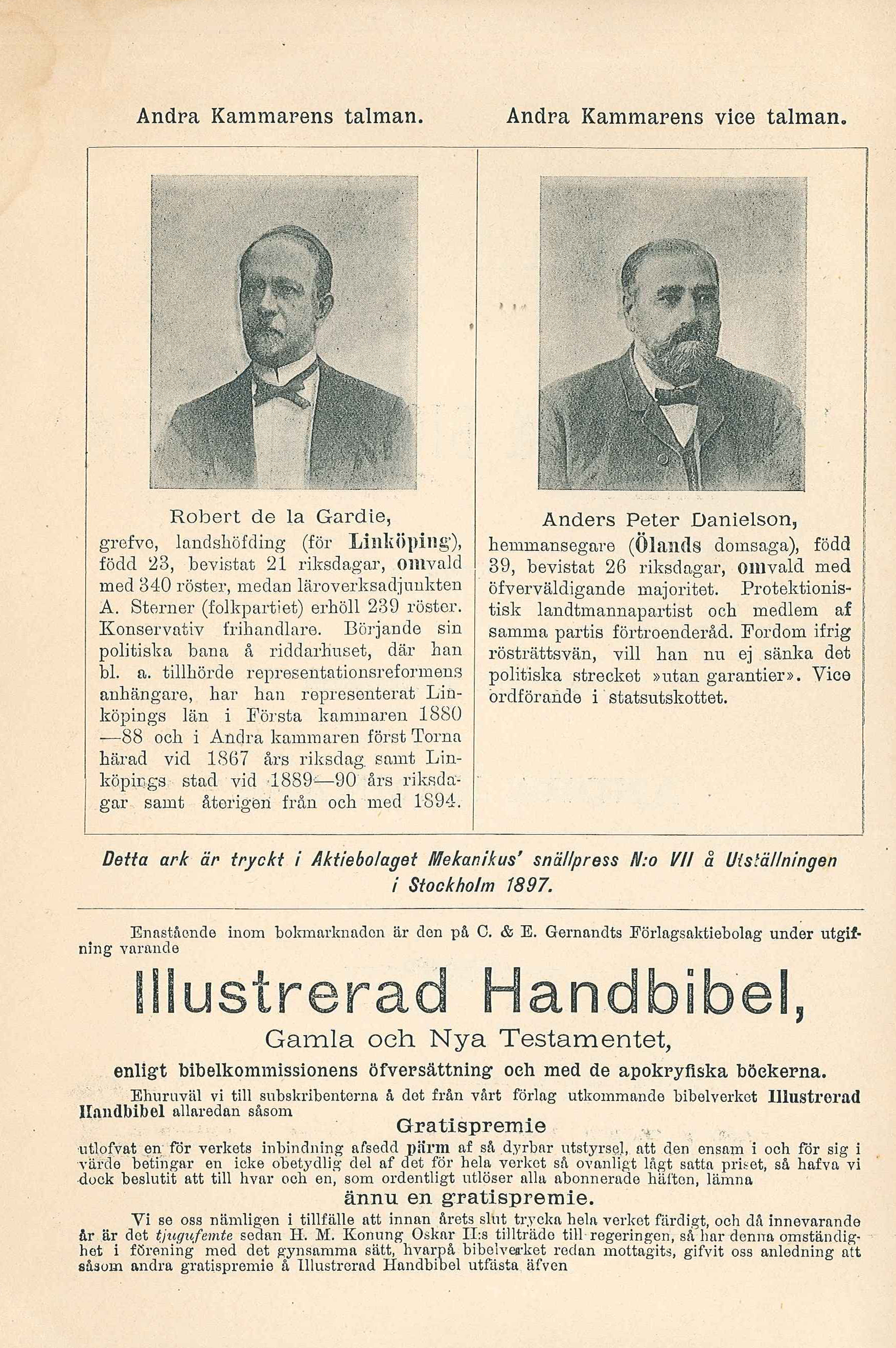 Page 2 of an album featuring portraits of all the members of the second chamber of the Swedish parliament (Sveriges riksdag) elected in 1897. This page featuring the two speakers of the chamber.